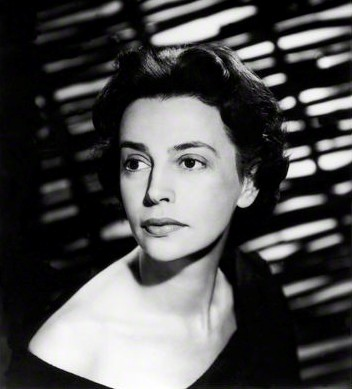 Headshot